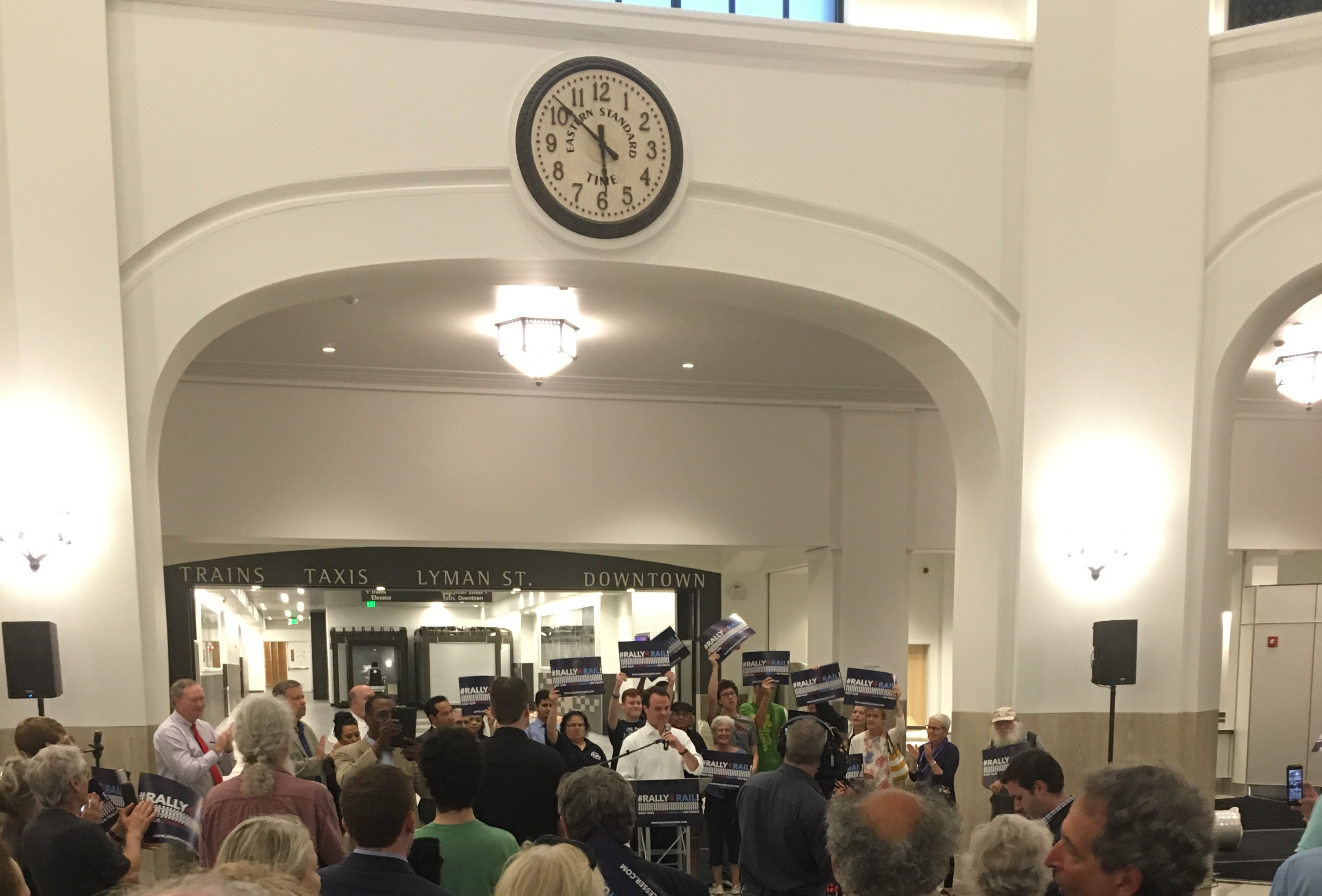 Sen. Eric Lesser speaks at the Rally for Rail at Union Station in Springfield, MA.